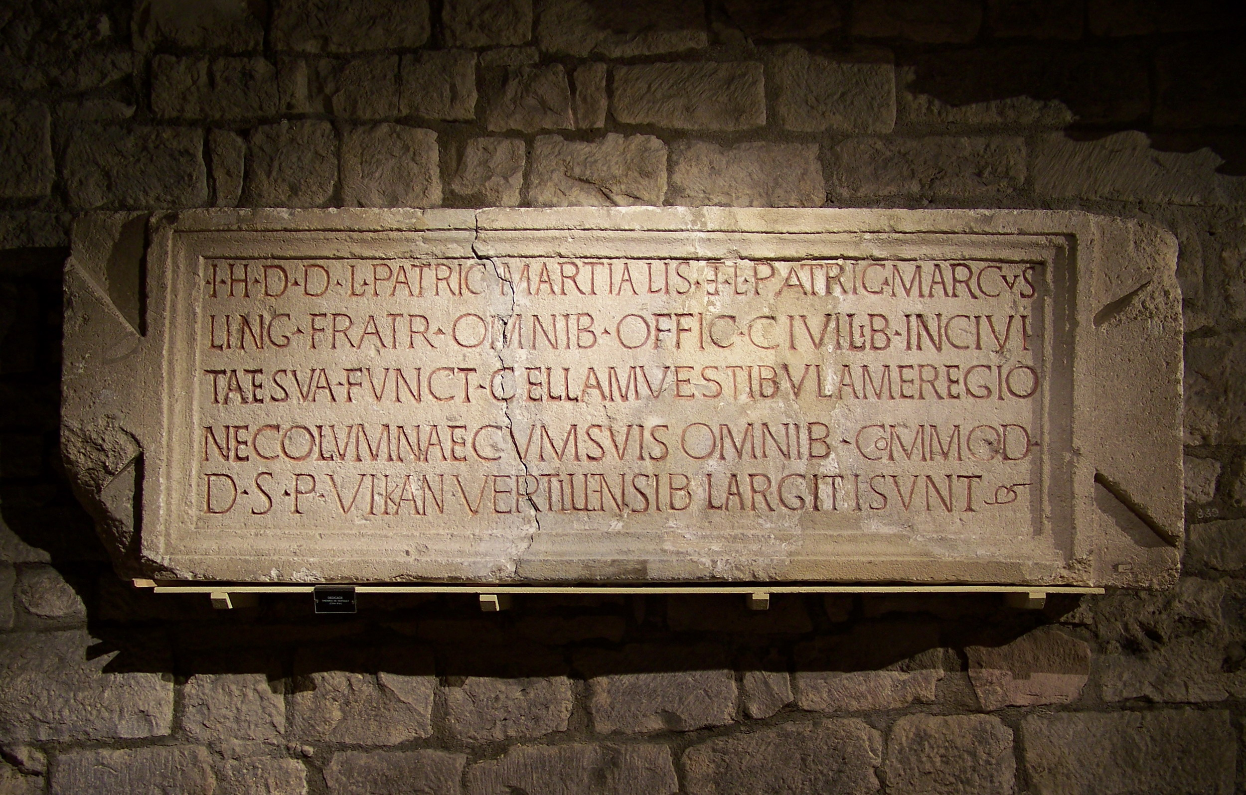 Dedication of the thermae in Vertault. Kept in the Musée archéologique de Dijon. CIL XIII, 5661